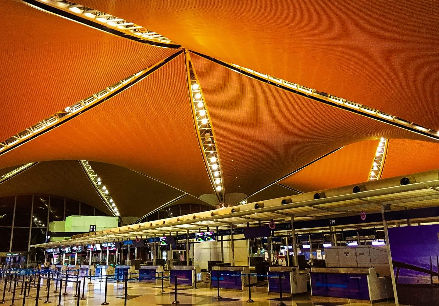 The landside area in KLIA.